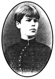 Maryja Bahdanovich (Марыя Багдановіч), mother of Maksim Bahdanovich